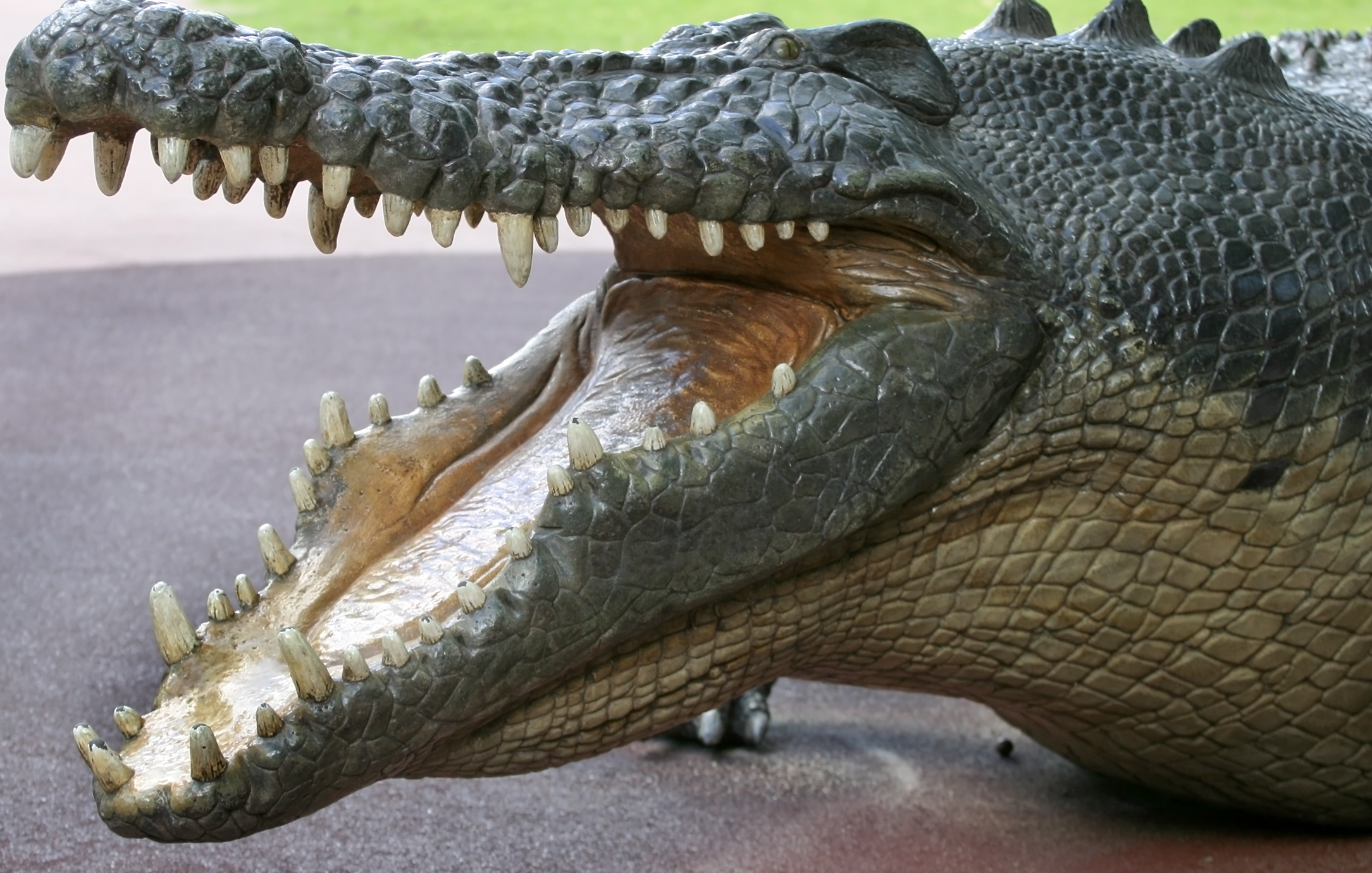 Australia Zoo Crocodile Head